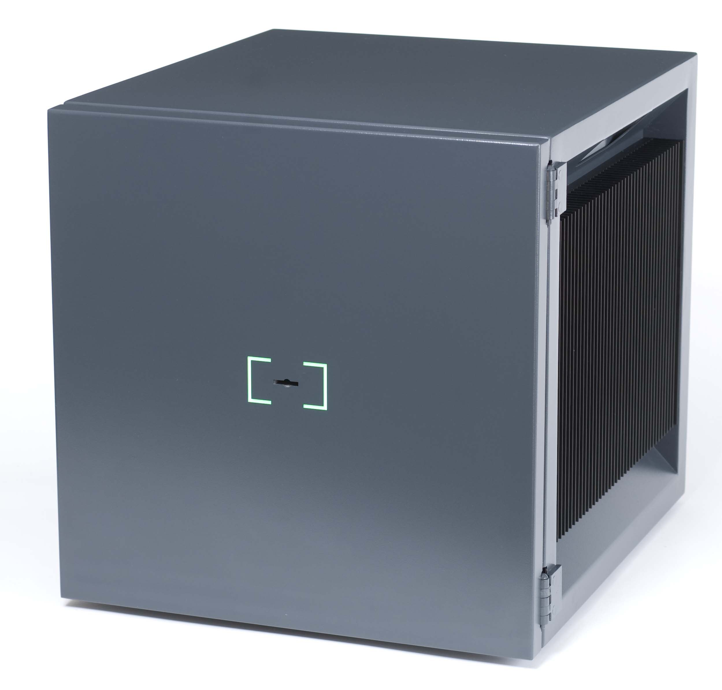 Disaster proof storage, fireproof, waterproof, burglarproof storage harddisk